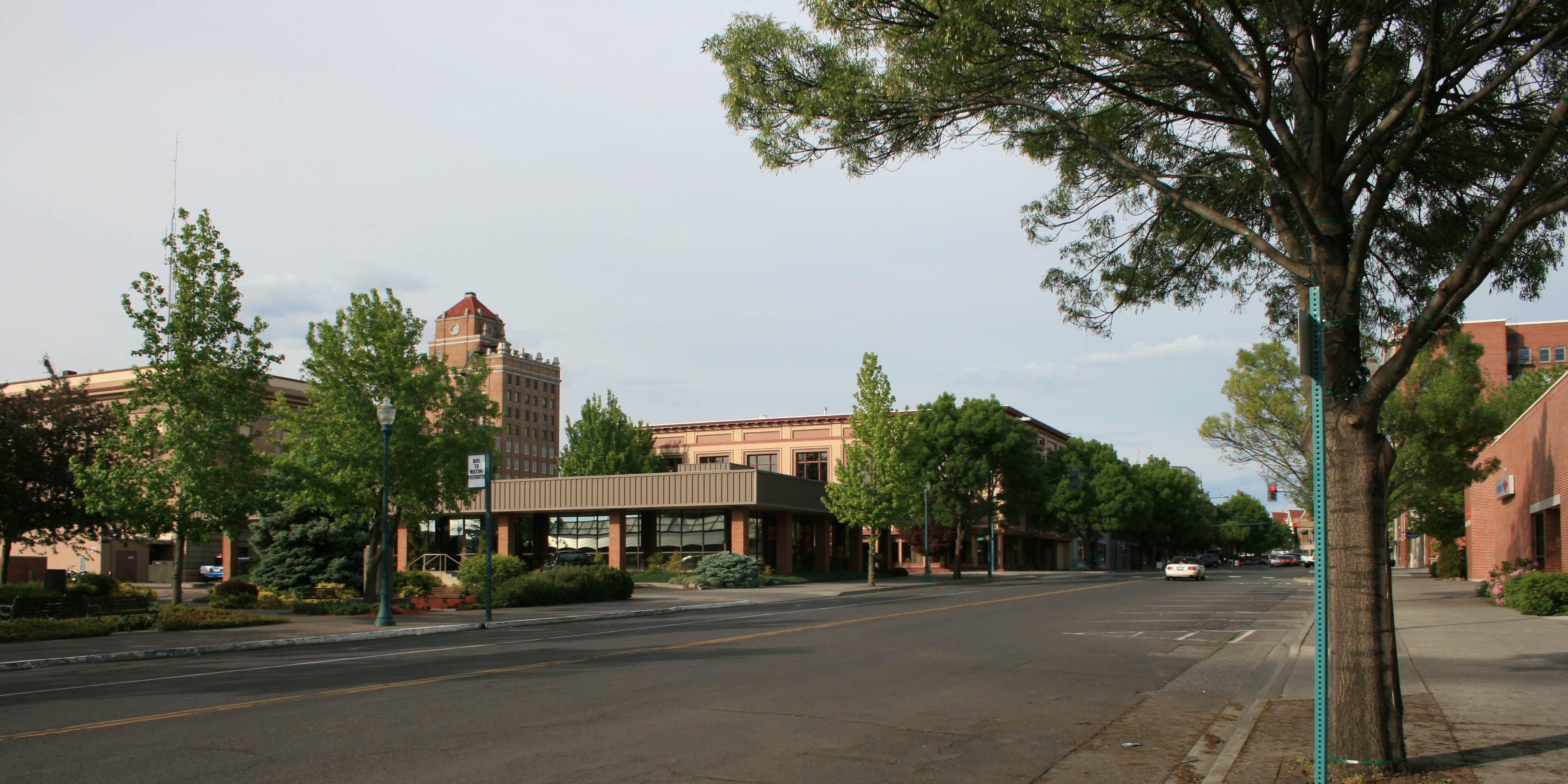 Photo of Walla Walla, Washington with the Marcus Whitman Hotel to the left.